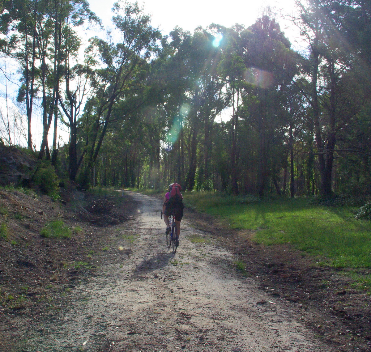 The Grand Ridge Rail Trail in Gippsland, Victoria, Australia. Photo (December 2009) shows damage and regrowth from February 2009 bushfires.